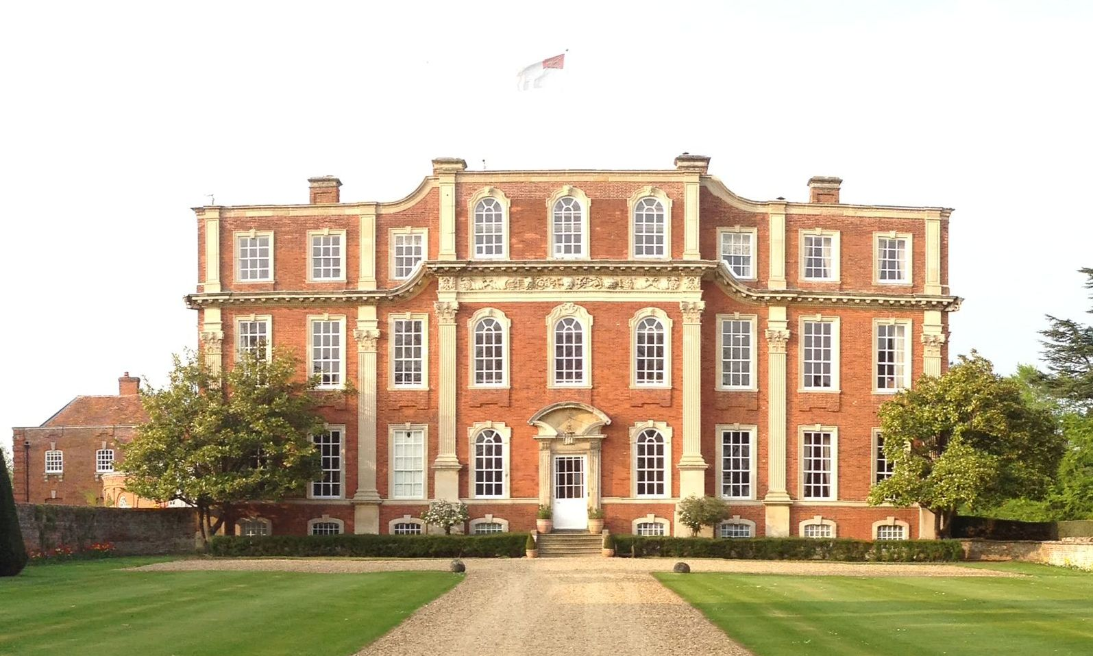 Chicheley Hall in Newport-Pagnell, England.